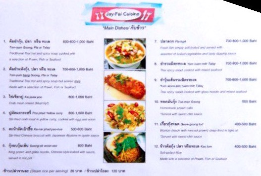 jay fai, bangkok, menu 2018